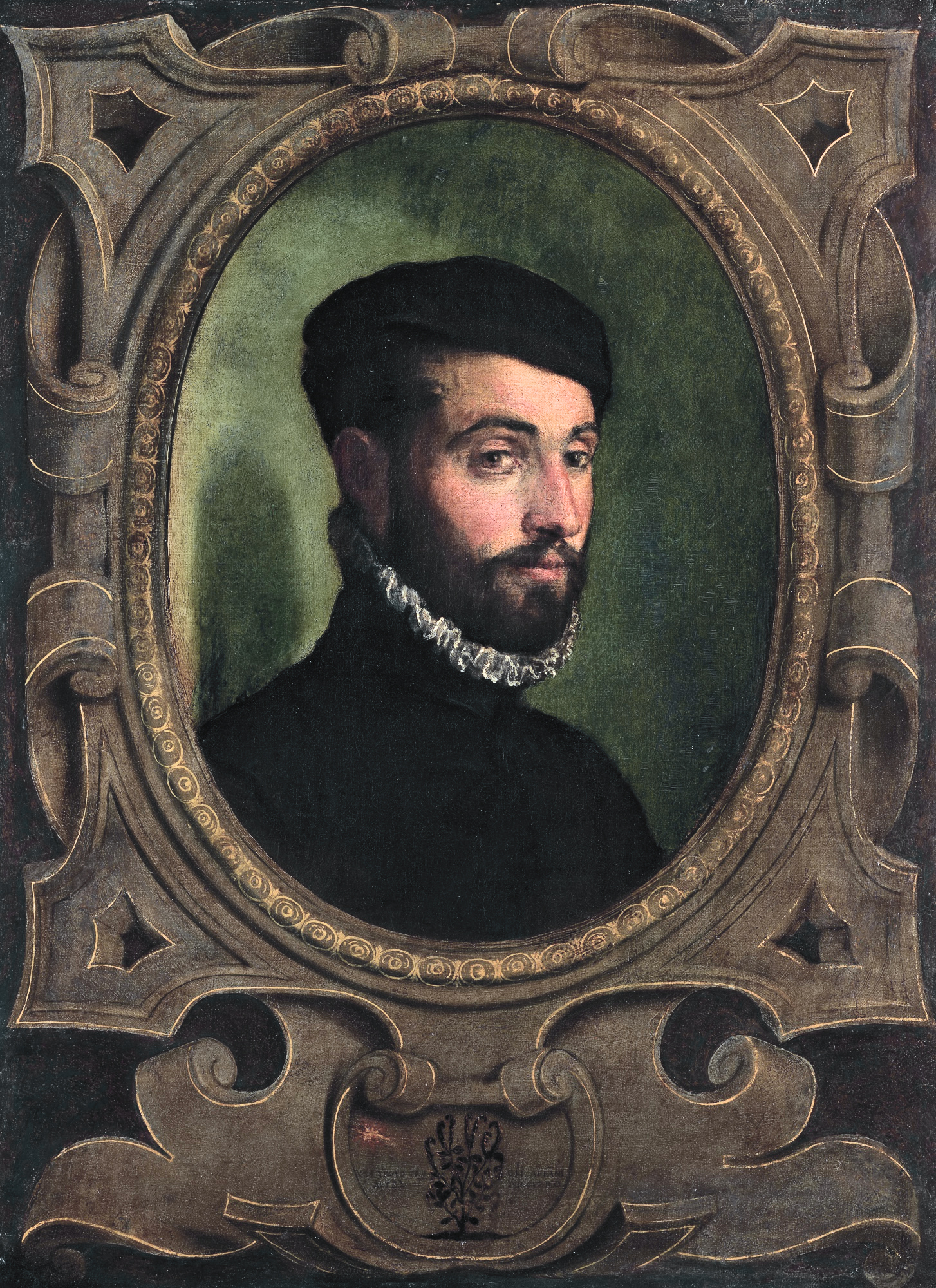 Torquato Tasso, aged 22 oil on canvas 62 x 46 cm inscribed b.c.: NON TROVO TRA GLI AFFANI/ ALTRO RICOVERO 1566